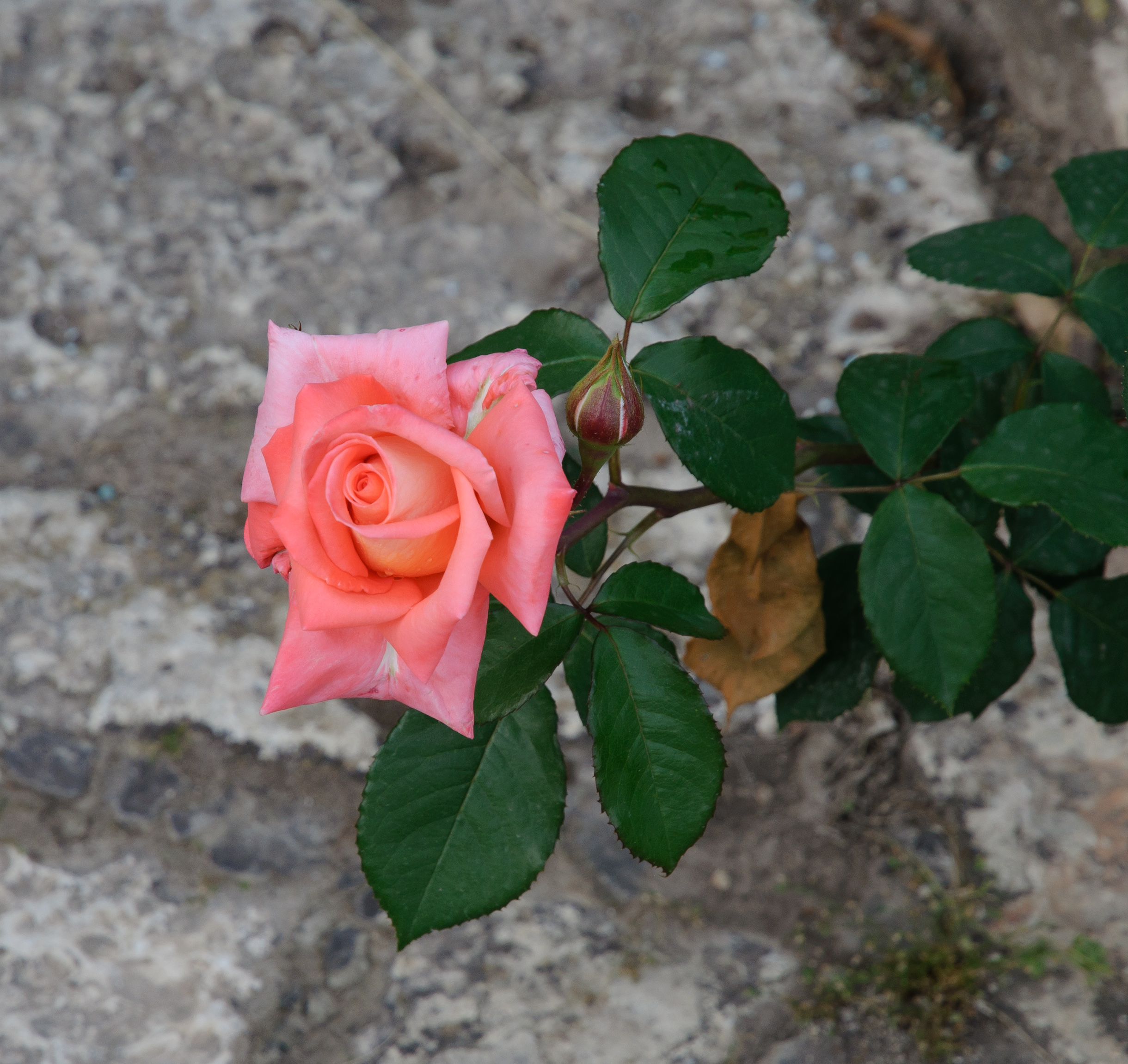 Hybrid tea rose 'Lolita' also known as 'Korlita' after the name of its creator Reimer Kordes. Botanical garden of Balchik Palace, Bulgaria.